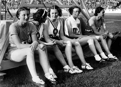 Five of the finalists of 80 m hs in 1936 Summer Olympics (from left Ondina Valla, Doris Eckert, Anni Steuer, Kitty ter Braake and Claudia Testoni)